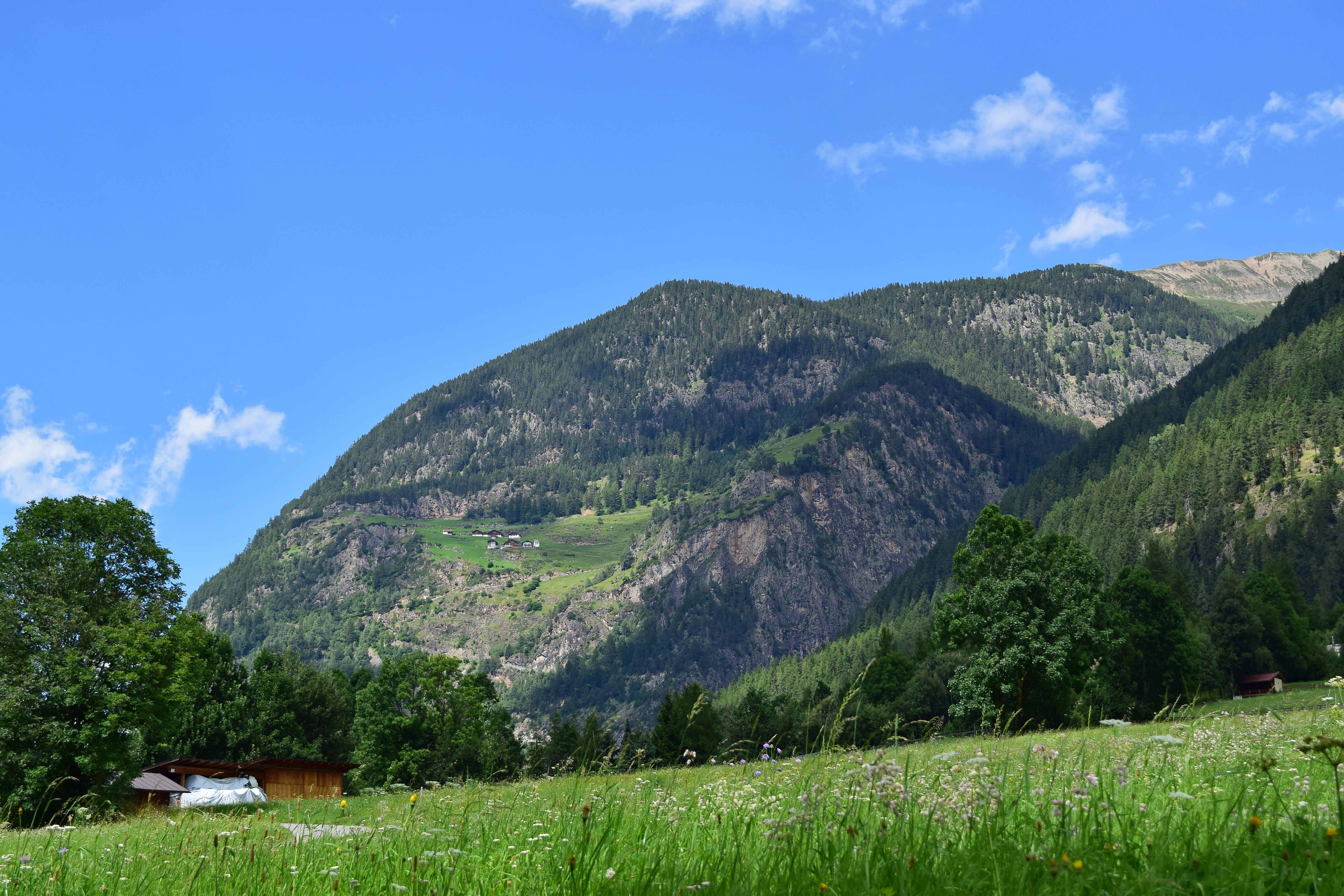 View to the mountain Farster Kopf (1992 m) and the Village Farst, municipality Umhausen